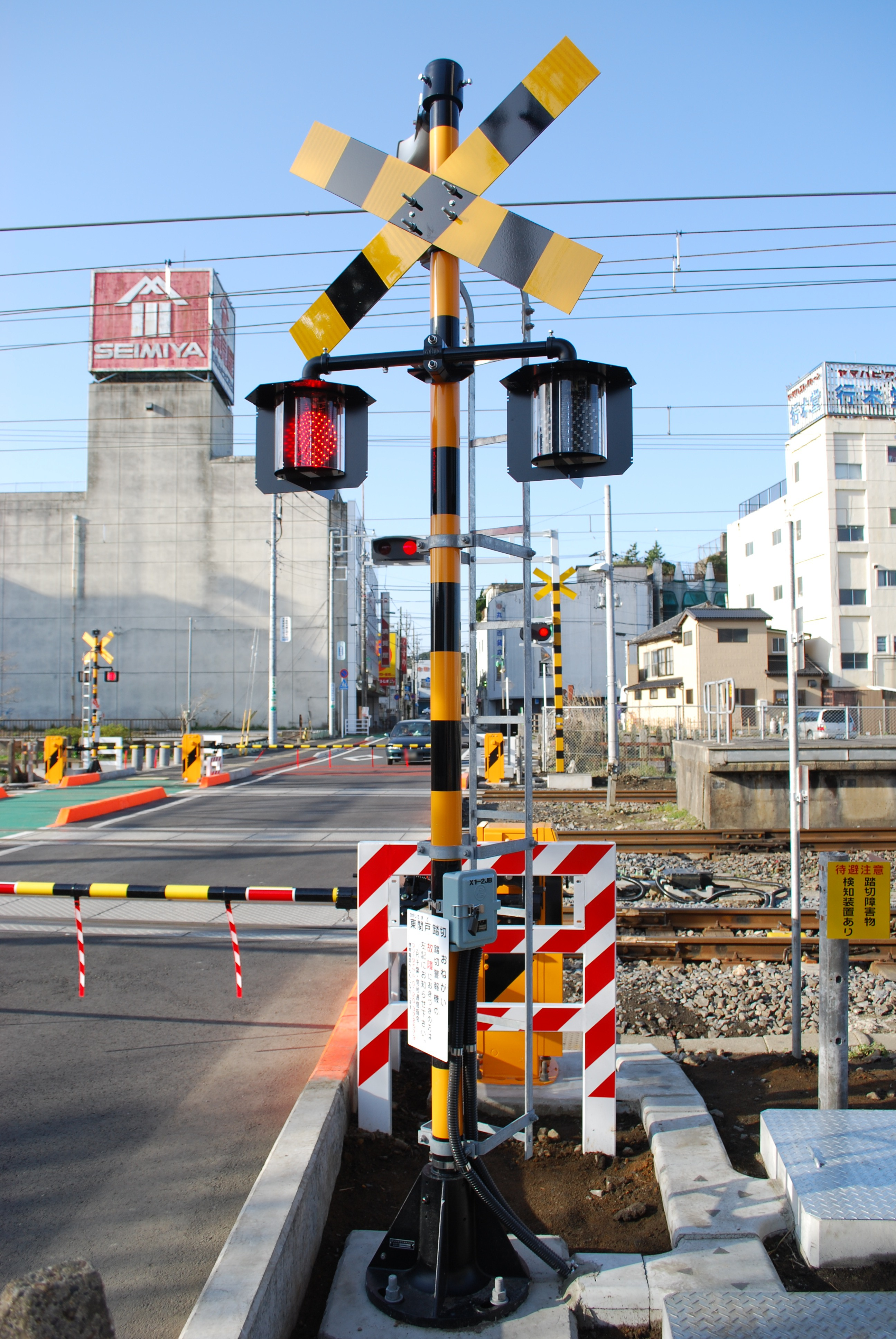 Japanese level crossing sign,Katori-city,Japan